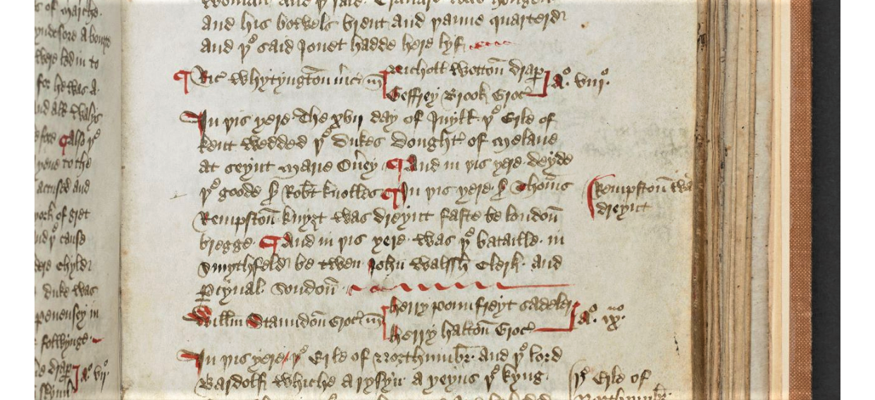 Text contains In this yere, the xvij day of Juyll, the erle of Kent wedded the dukes doughter of Melane, at seynt Marie Overey ( From BL Harley MS 565, f. 68r; digitised and held by the British Library.